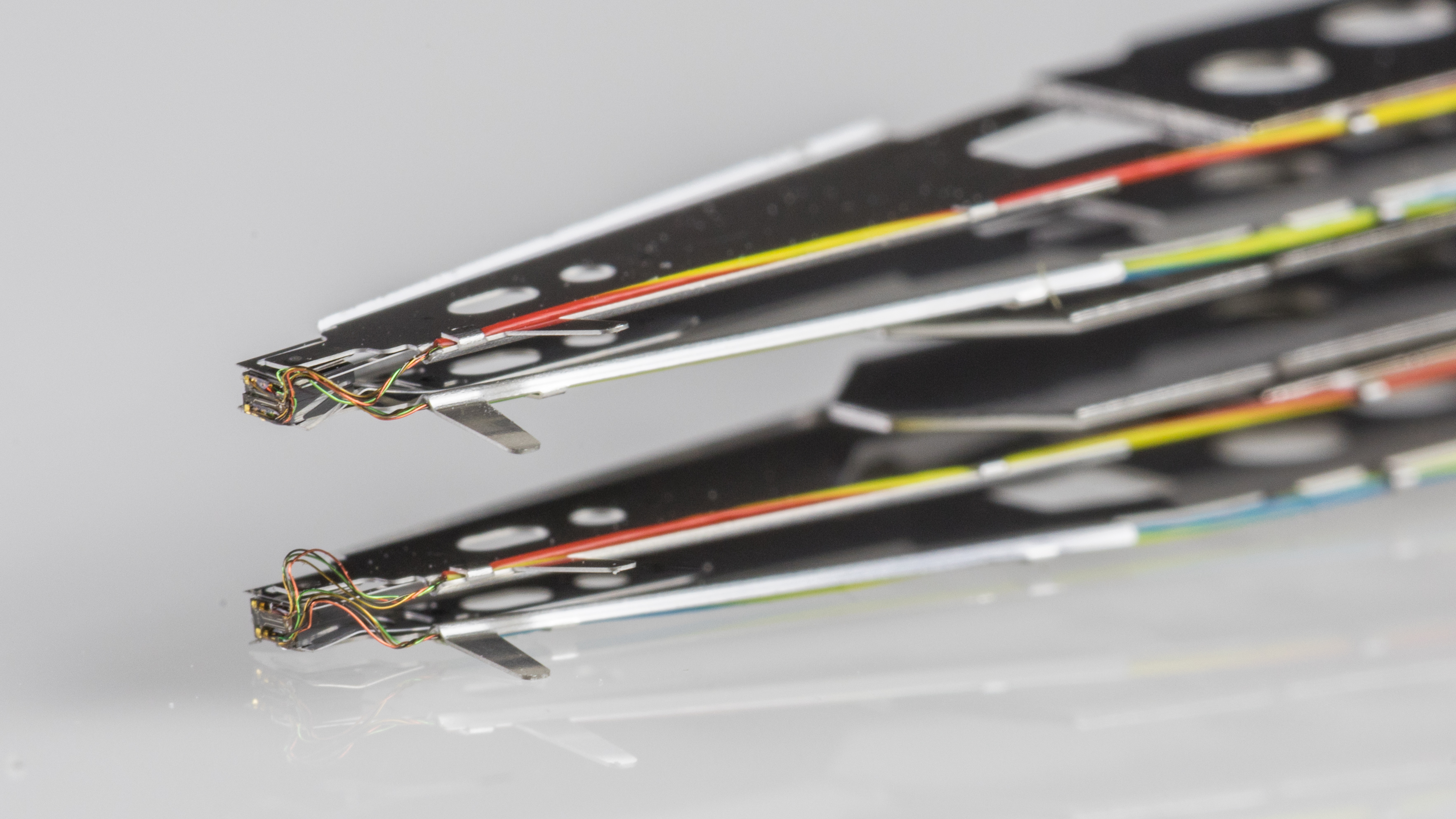 Toshiba MK1403MAV - hard disk heads